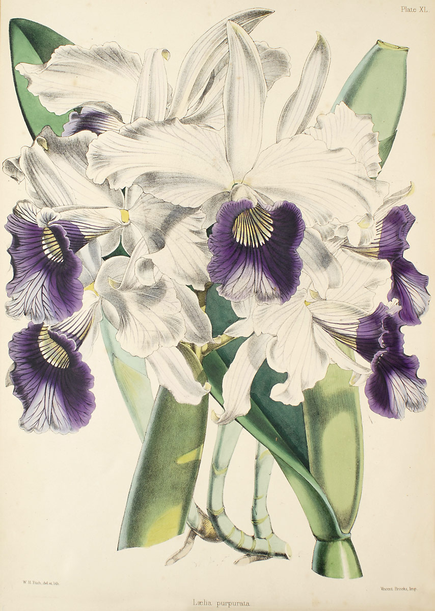 Illustration of Sophronitis purpurata (as syn. Laelia purpurata)